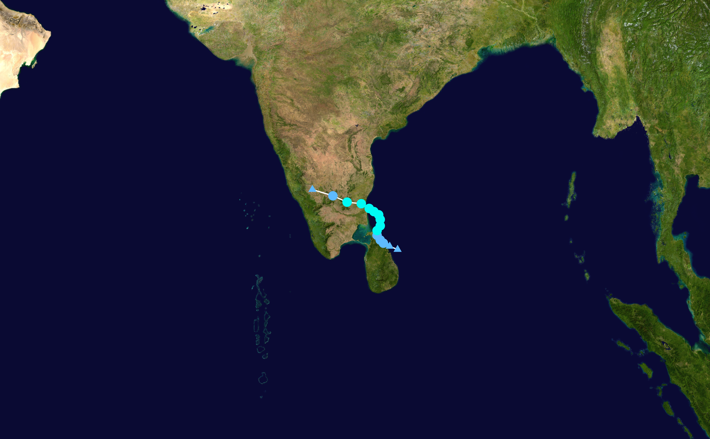 Track map of Cyclonic Storm Nisha of the 2008 North Indian Ocean cyclone season. The points show the location of the storm at 6-hour intervals. The colour represents the storm's maximum sustained wind speeds as classified in the Saffir–Simpson scale (see below), and the shape of the data points represent the nature of the storm, according to the legend below. Saffir–Simpson scale Tropical depression≤38 mph≤62 km/h Category 3111–129 mph178–208 km/h Tropical storm39–73 mph63–118 km/h Category 4130–156 mph209–251 km/h Category 174–95 mph119–153 km/h Category 5≥157 mph≥252 km/h Category 296–110 mph154–177 km/h Unknown Storm type Tropical cyclone Subtropical cyclone Extratropical cyclone / Remnant low / Tropical disturbance / Monsoon depression